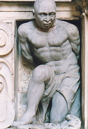 Church